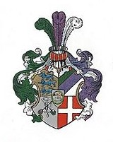 Wappen der Baltischen Corporation Estonia Dorpat